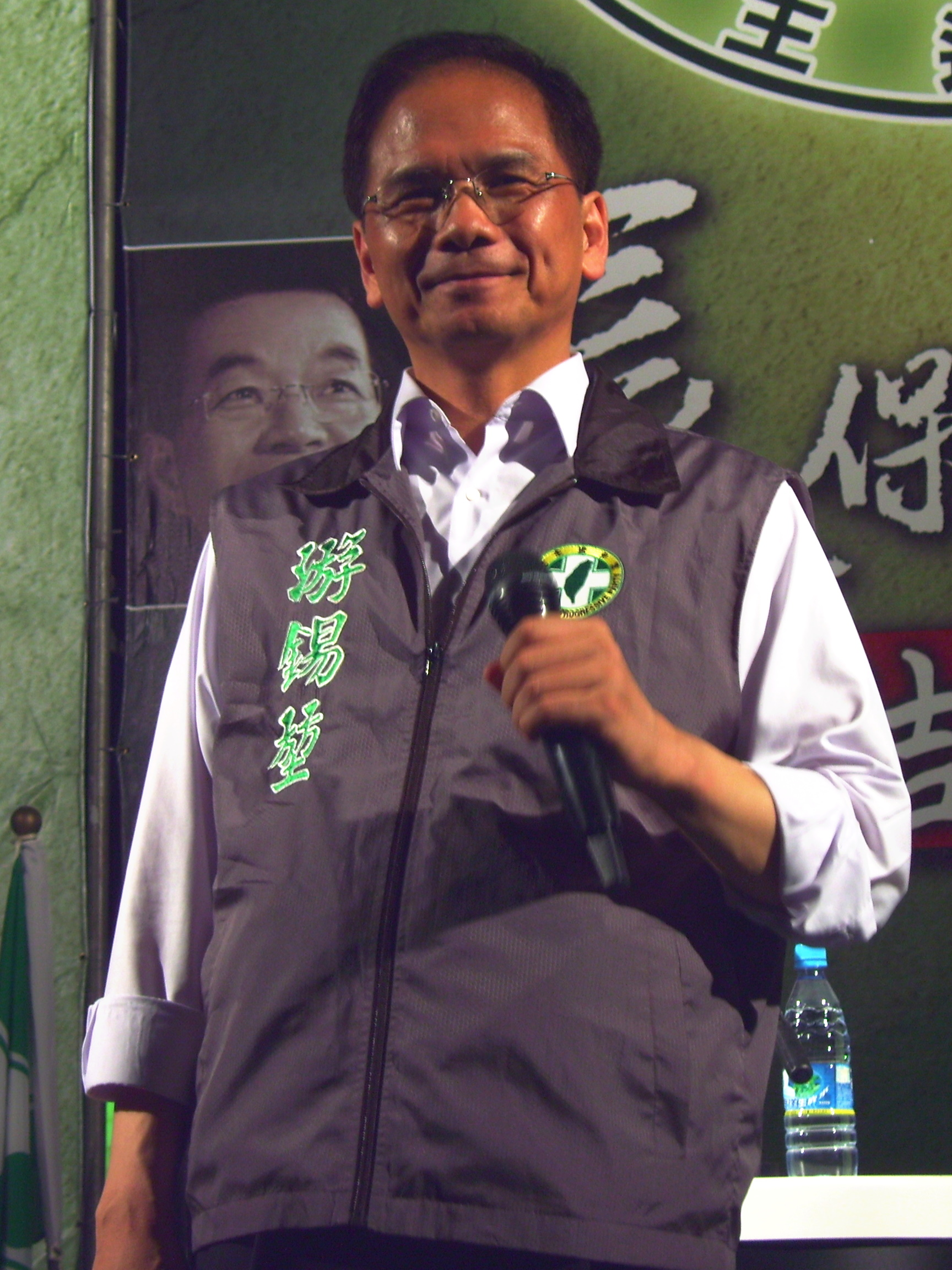 Former DPP Chairman Shyi-kun Yu. Taken at "2007 DPP Long Forever Unite Night".Bân-lâm-gú: Tsiân Bîn-tsú Tsìn-pōo-tóng tóng-tsú-si̍k Iû Sik-khun. 前民主進步黨主席游錫堃。